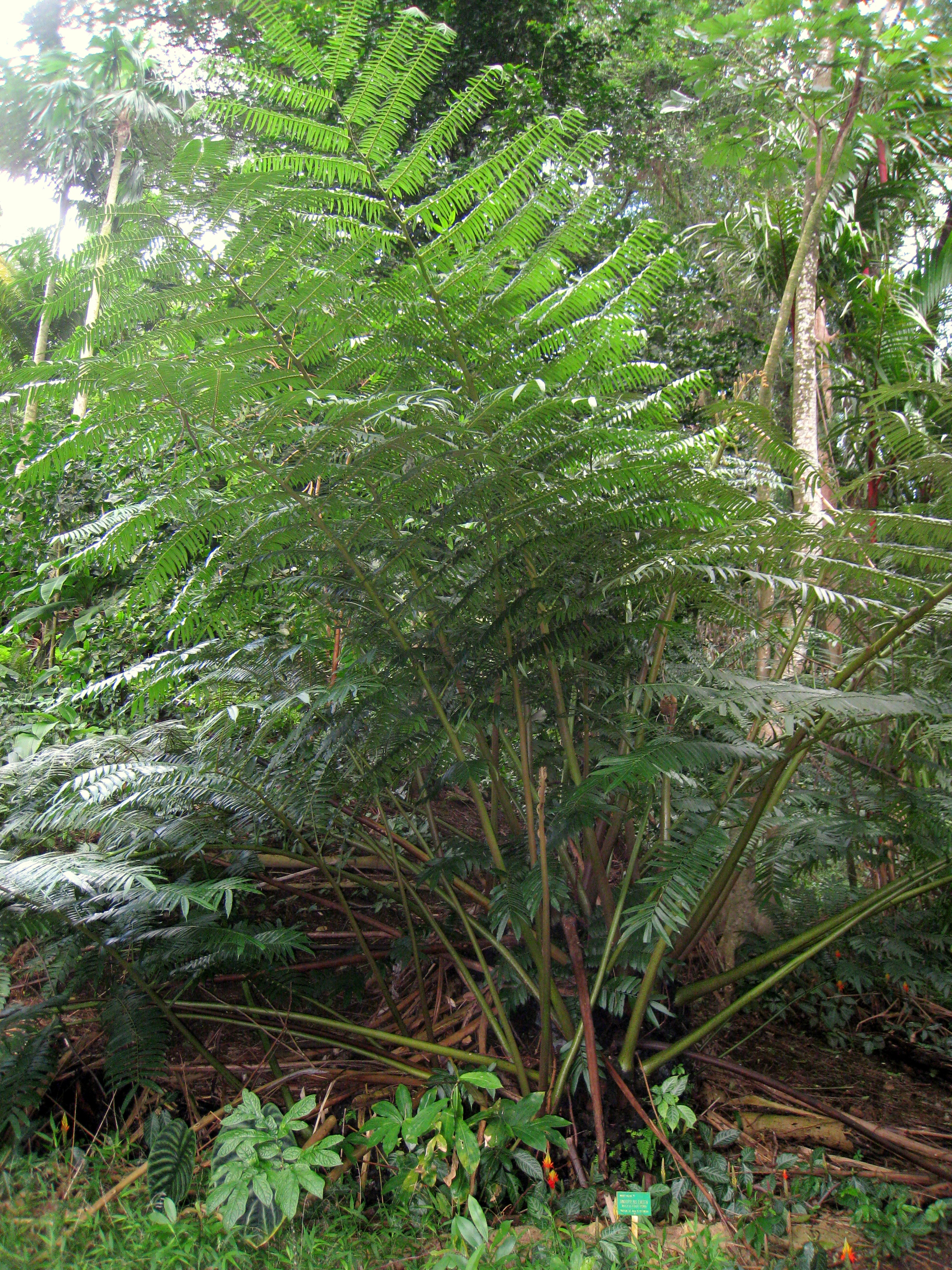 Angiopteris evecta in Lyon Arboretum, Hawaii, USA.